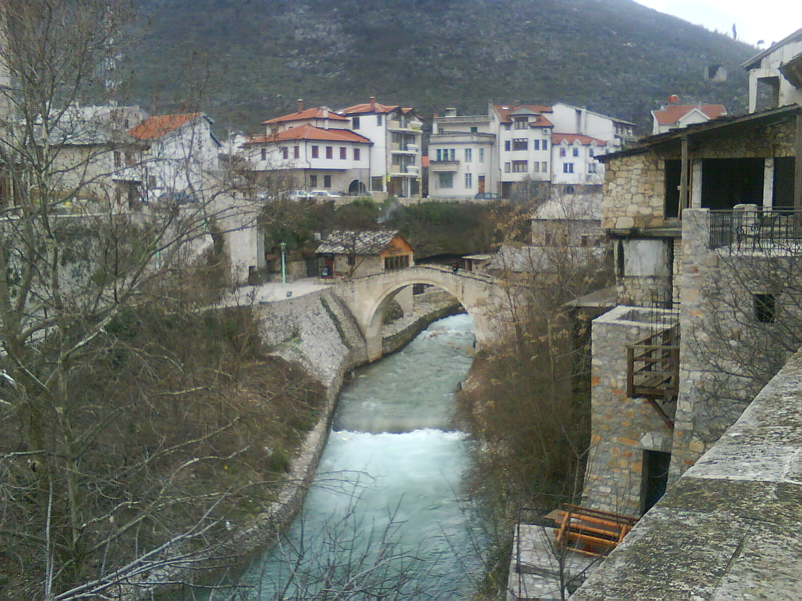 'Kriva ćuprija' in Mostar